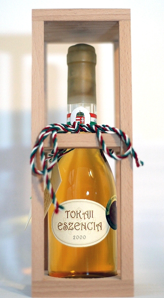 Tokaji Eszencia or Tokaji Nature Eszencia Most Great Sweetwine.